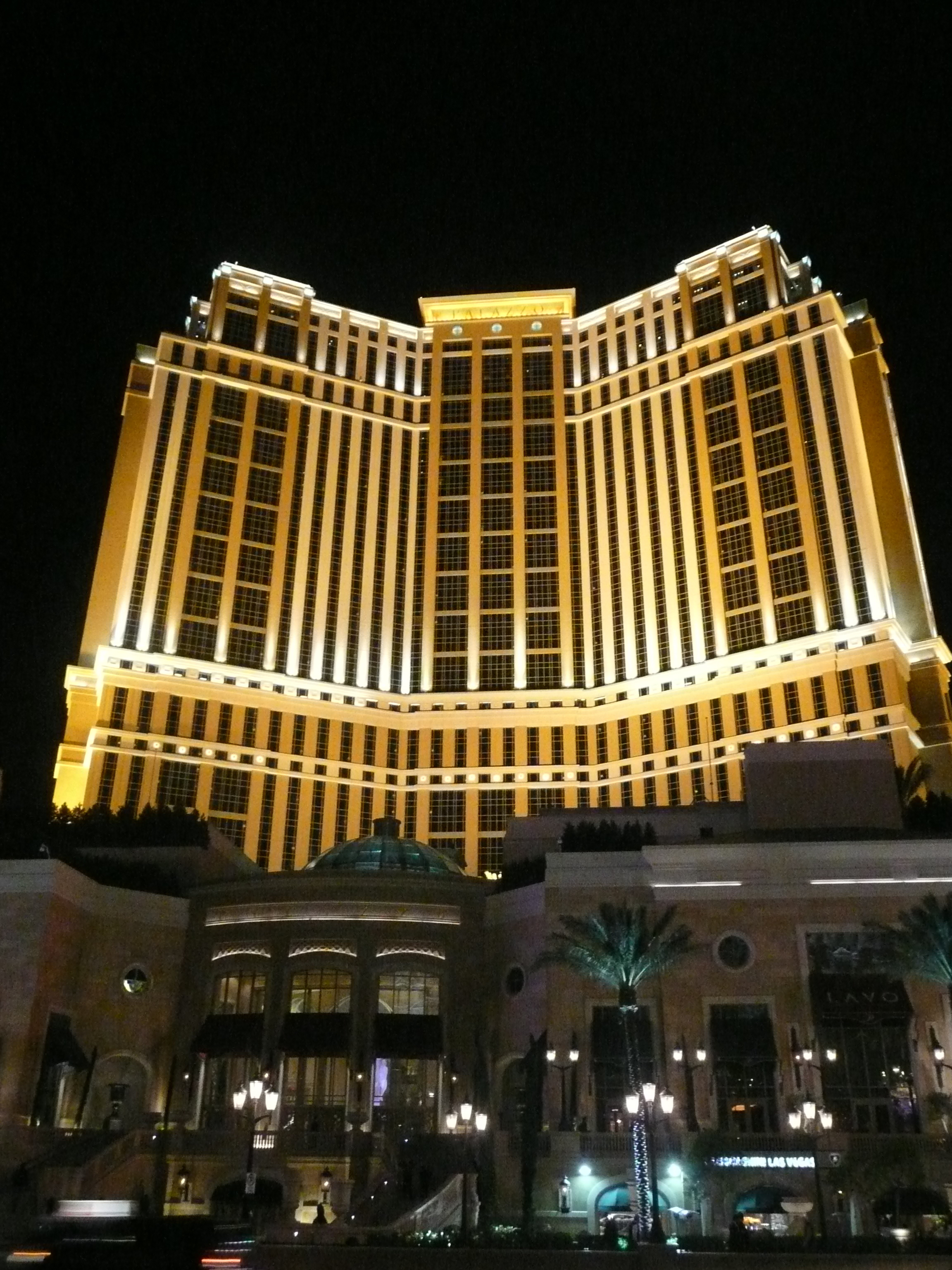 Palazzo at night